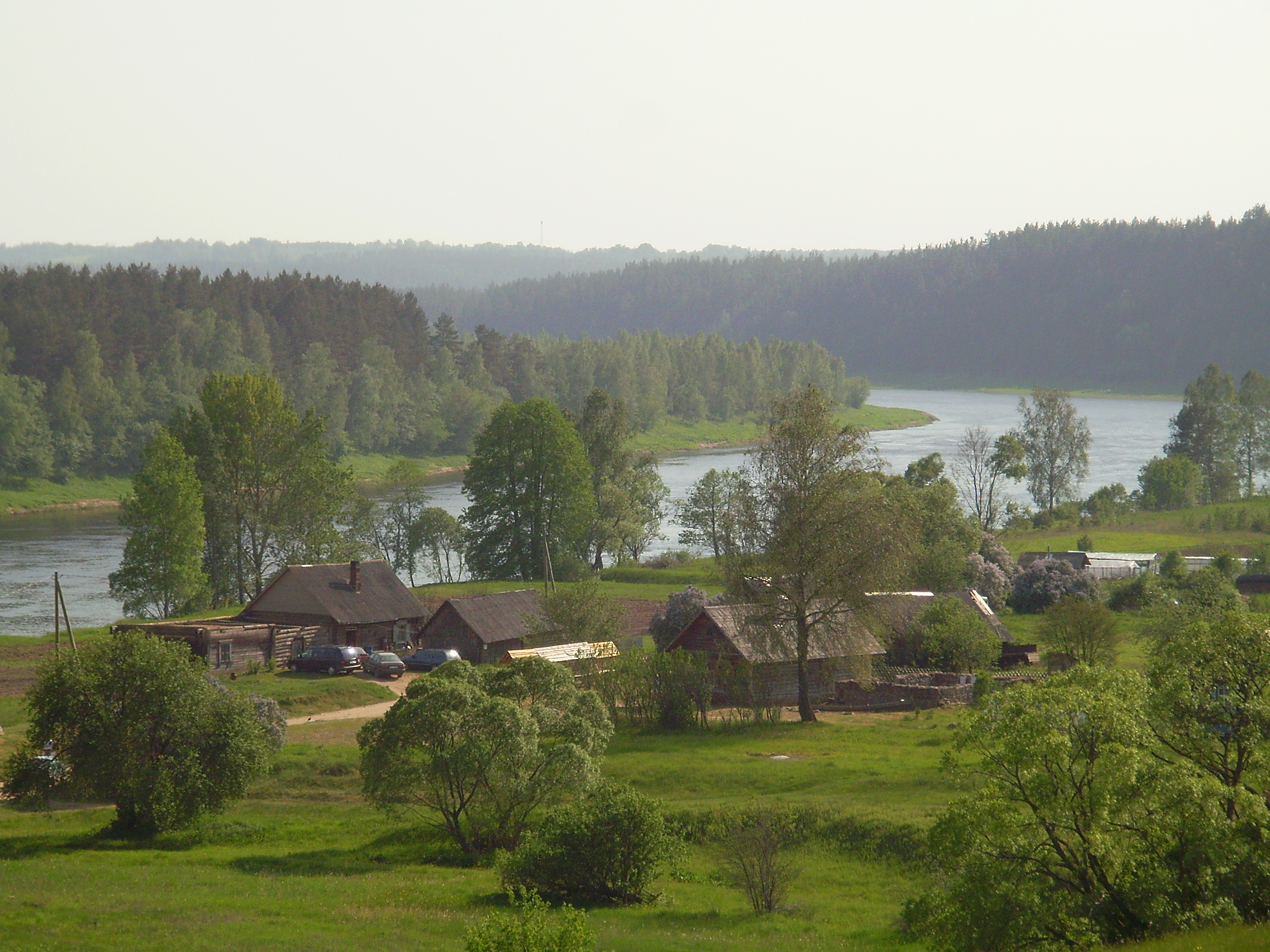 The Daugava River near the Old Believers’ village of Slutiški, Daugavpils municipality, Latvia.